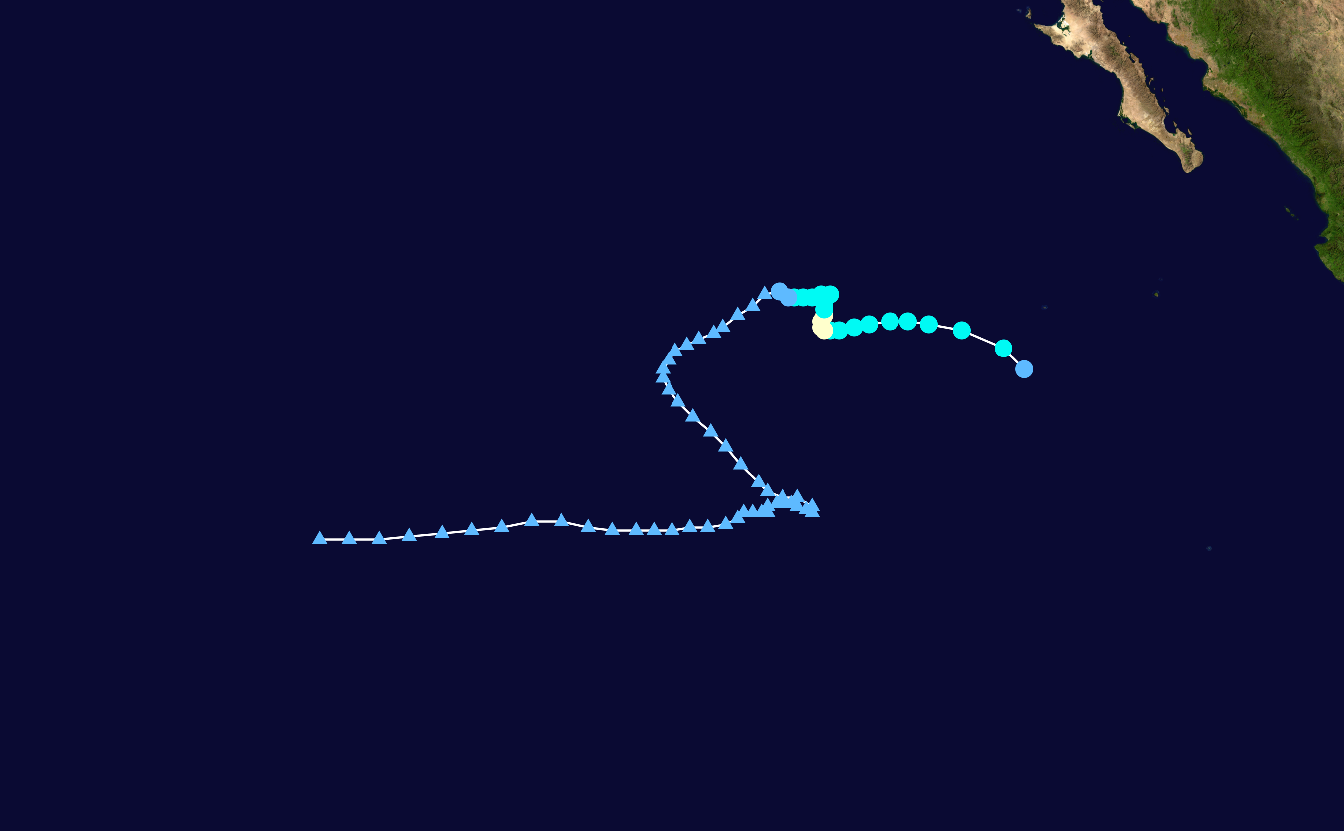 Track map of Hurricane Marie of the 2008 Pacific hurricane season. The points show the location of the storm at 6-hour intervals. The colour represents the storm's maximum sustained wind speeds as classified in the Saffir–Simpson scale (see below), and the shape of the data points represent the nature of the storm, according to the legend below. Saffir–Simpson scale Tropical depression≤38 mph≤62 km/h Category 3111–129 mph178–208 km/h Tropical storm39–73 mph63–118 km/h Category 4130–156 mph209–251 km/h Category 174–95 mph119–153 km/h Category 5≥157 mph≥252 km/h Category 296–110 mph154–177 km/h Unknown Storm type Tropical cyclone Subtropical cyclone Extratropical cyclone / Remnant low / Tropical disturbance / Monsoon depression